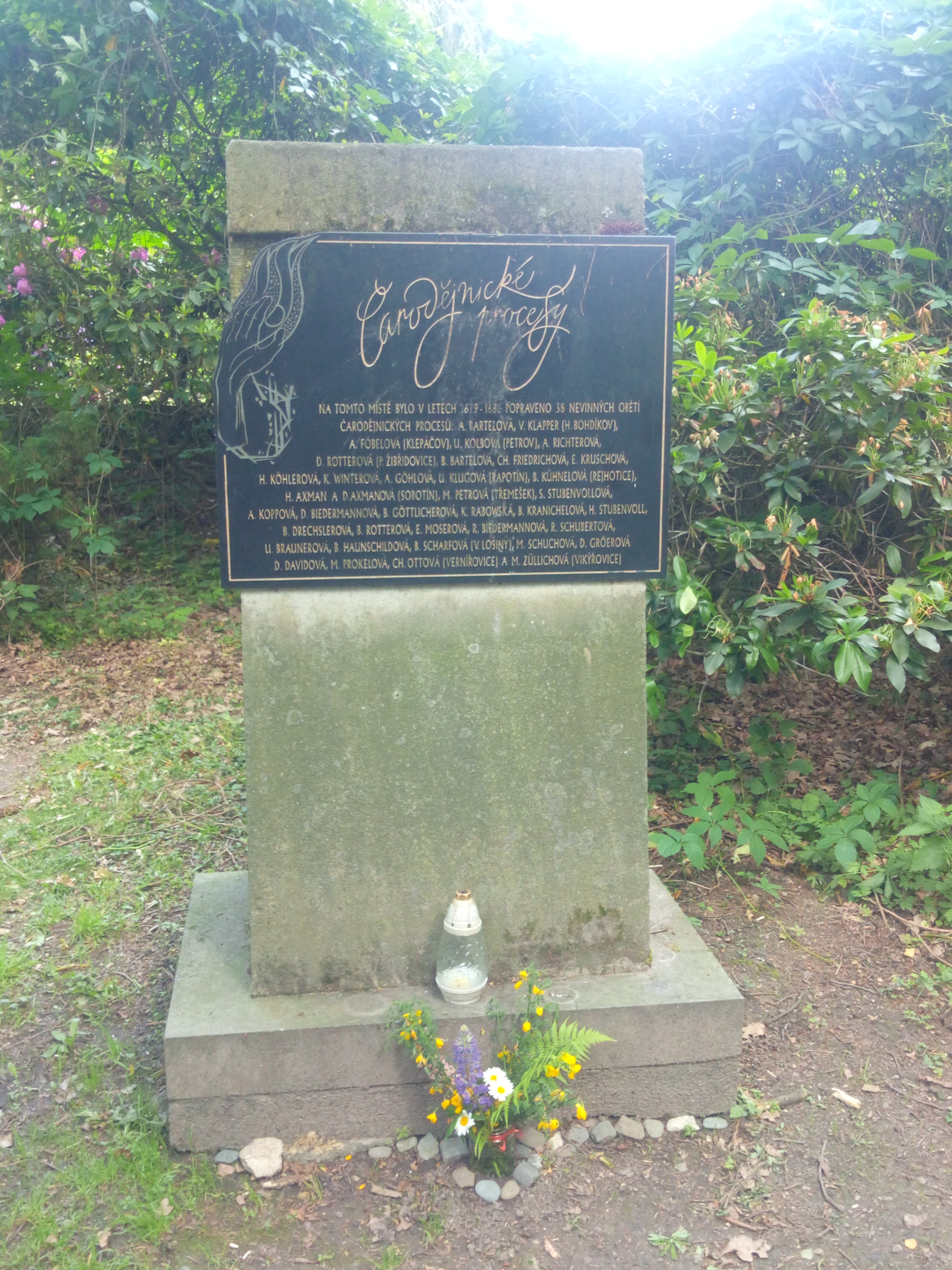 Memorial to the victims of witchtrials